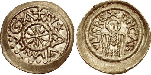 Lucca. Frankish rule. VII-IX century. AV Tremissis (17mm, 0.98 g, 11h). DN CARVLVS REX, facing half-length bust. FLAVIA LVCA.